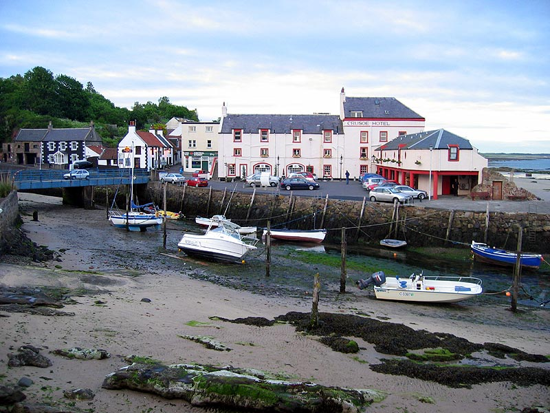 The harbour and Crusoe Hotel at Lower Largo, Fife, Scotland. © 2004, Jeremy Atherton.